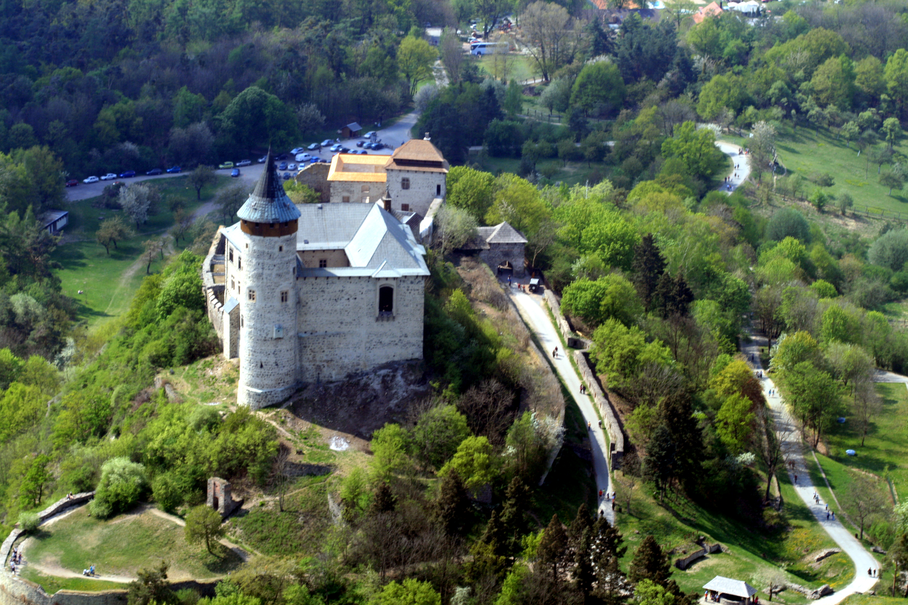 Castle Kunětice Mountain Castle on hill Kunětice Mountain from air, eastern Bohemia, Czech Republic